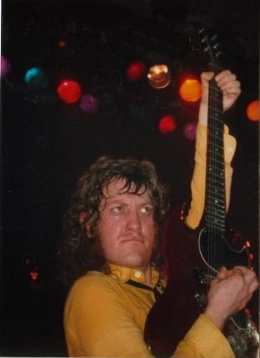 Noddy Holder, guitarist of Slade, performing at Cardiff University